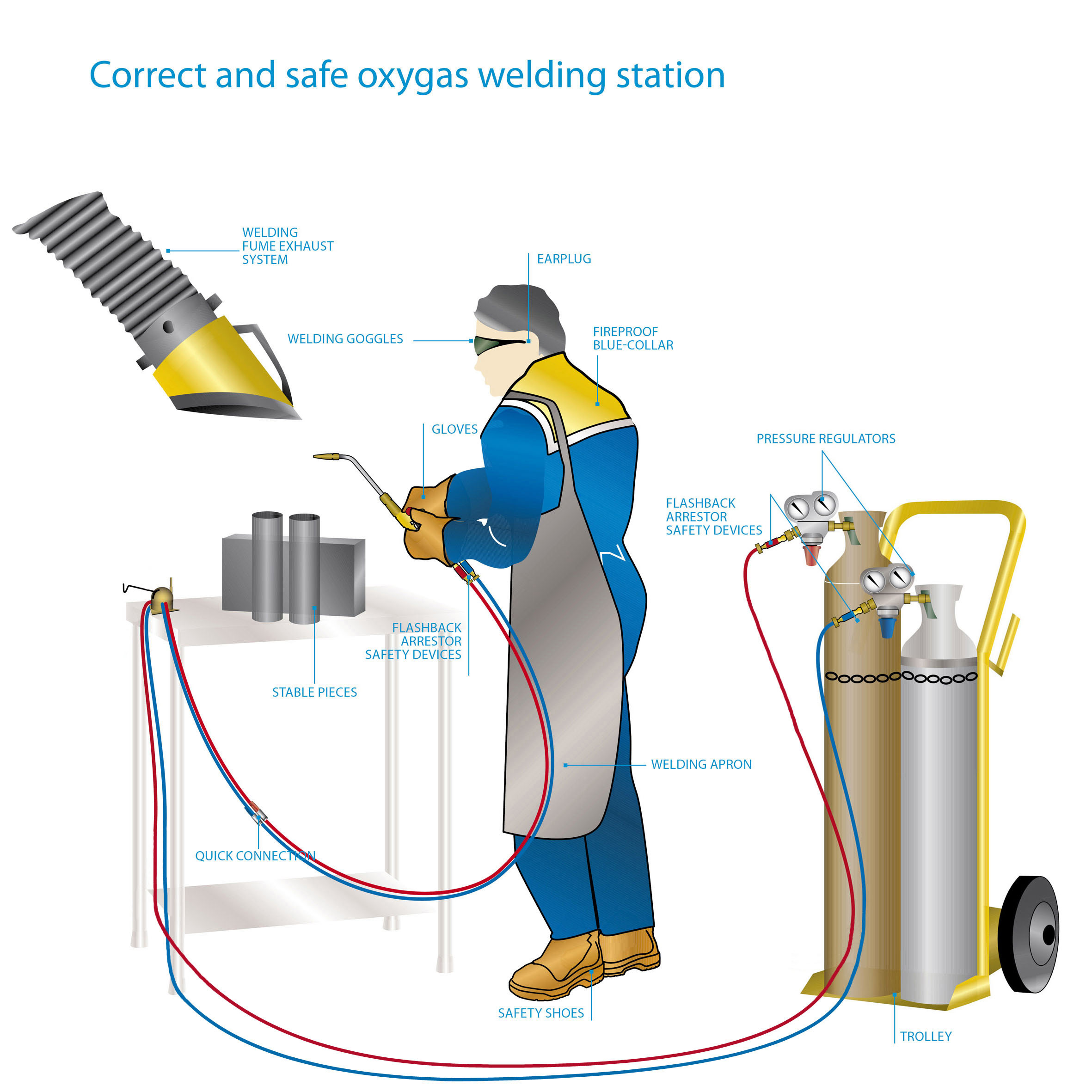 Oxy-gas welding station